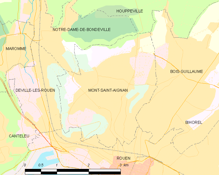 Map of French municipality Mont-Saint-Aignan